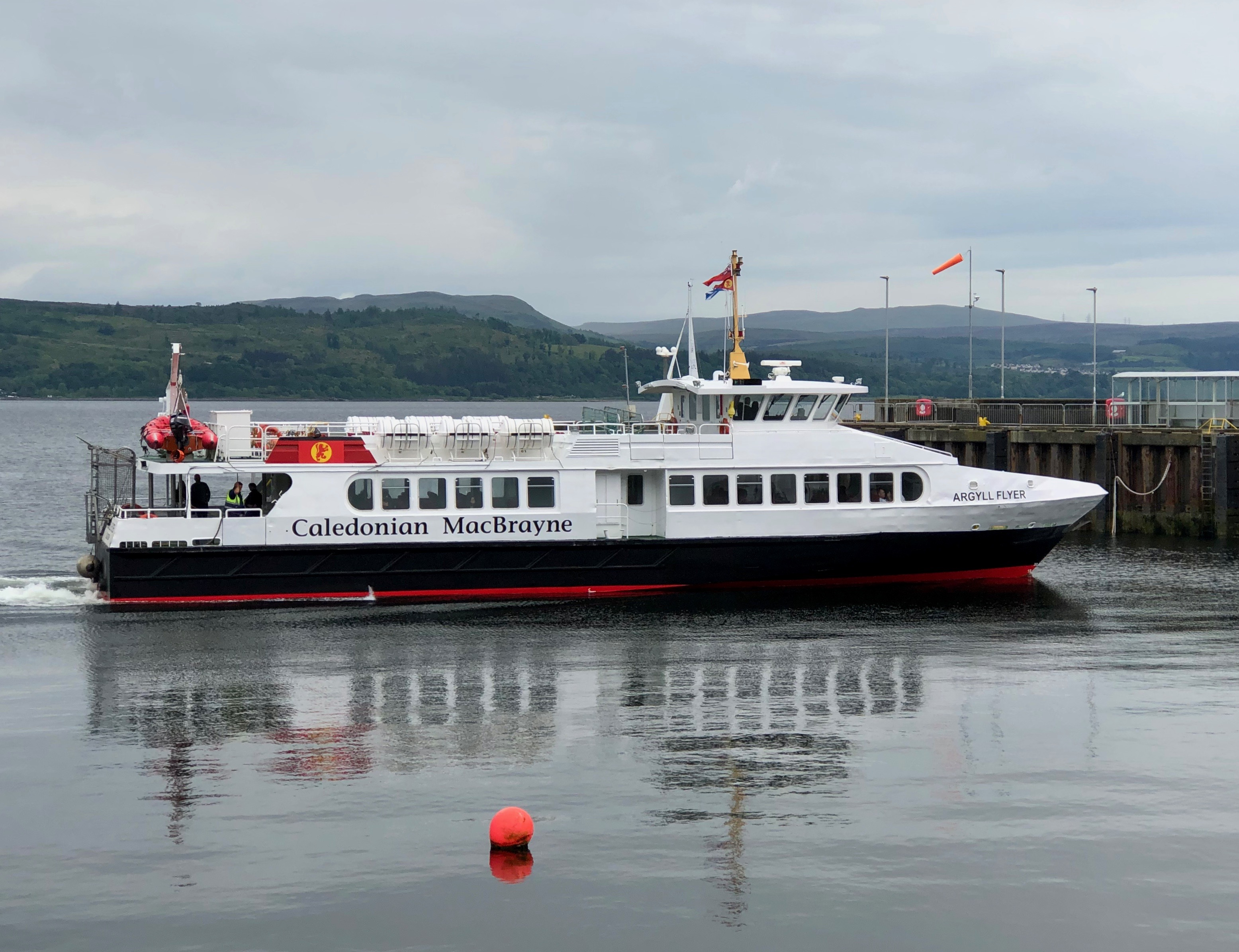 MV Argyll Flyer, recently repainted in Caledonian MacBrayne livery, approaching Dunoon pier.